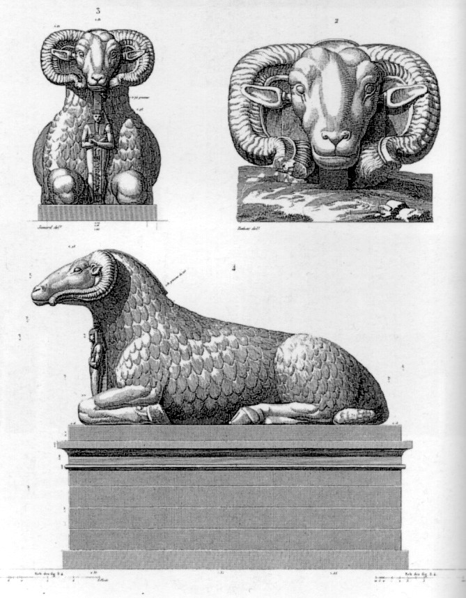 "Description de l´Egypte" (Description of Egypt). Illustration (sculpture of a ram)